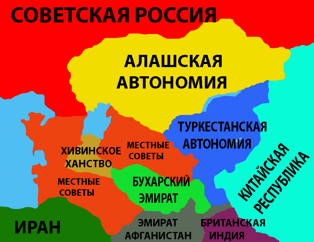 Political map of Central Asia in late 1917 and early 1918. All indicated areas are approximate.